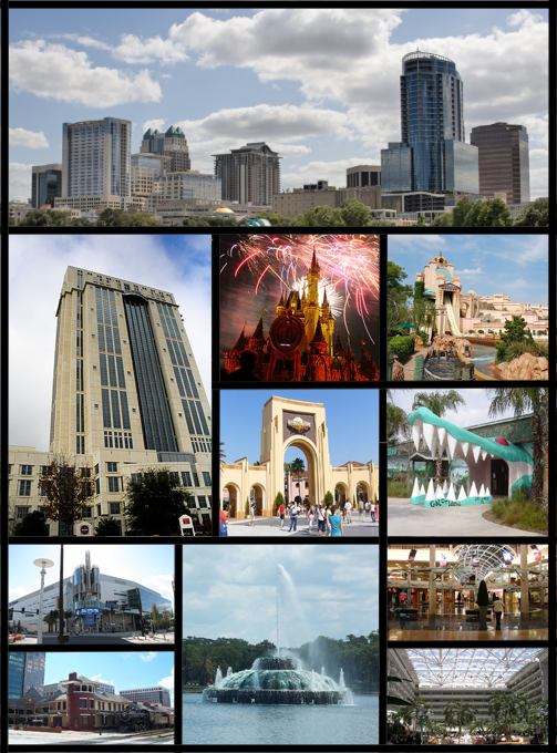 A montage of things in Orlando, Florida